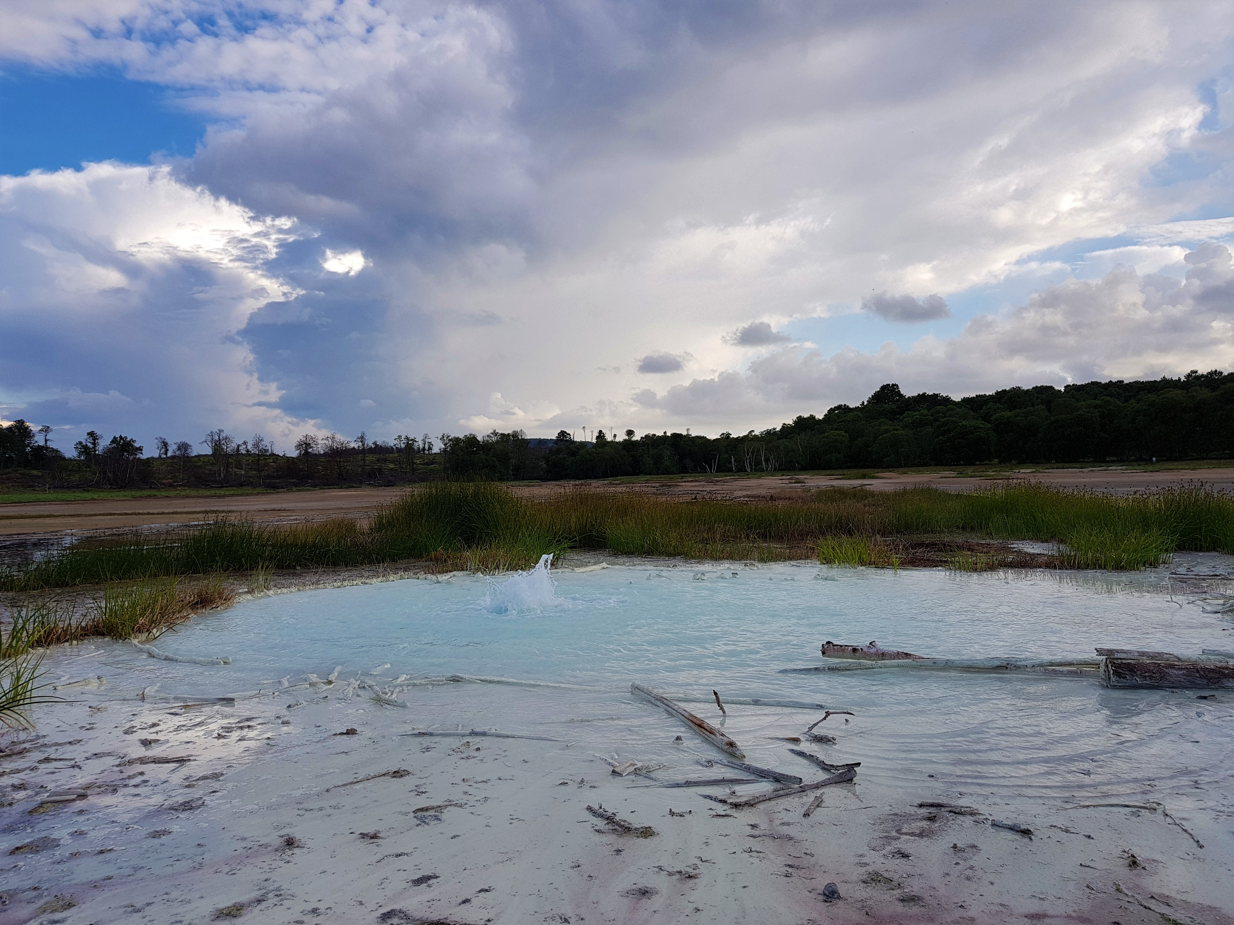 La pozza vista da vicino